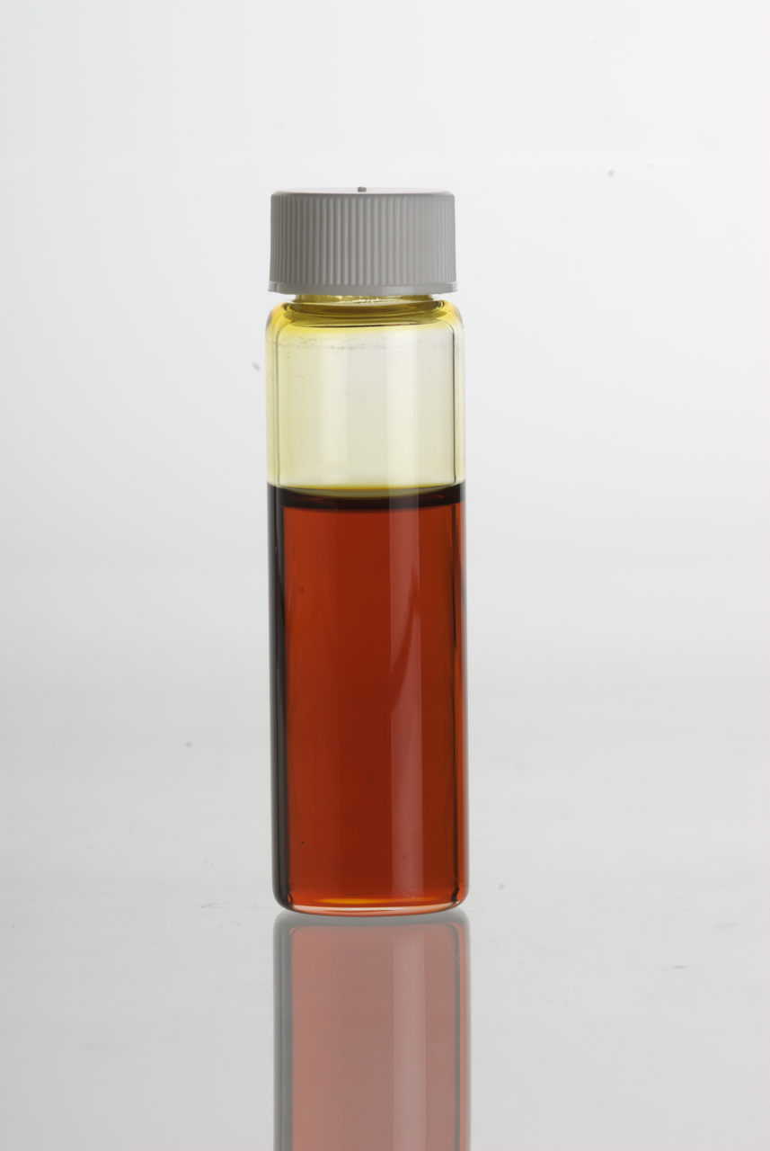 Patchouli (Pogostemon cablin) Essential Oil in clear glass vial